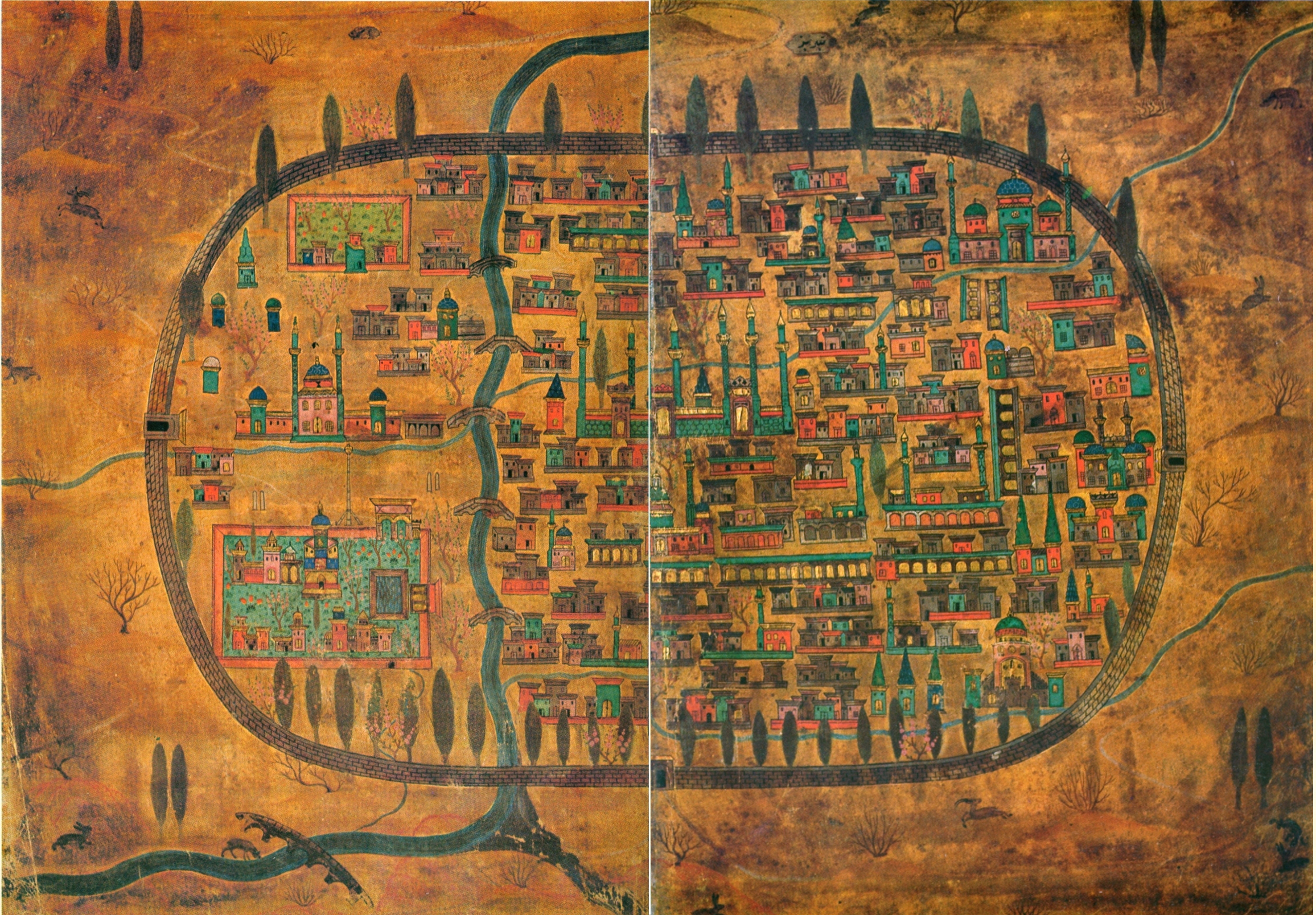 16th century map of Tabriz, Iran. * Matrakçı Nasuh's separate drawings of east and west Tabriz were put together.